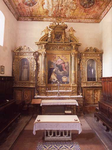 This chapel belongs to Caccuri's artistic baggage. It's called Chapel of the Congregation of the St. Rosarious.